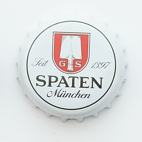 Bottle caps from different countries